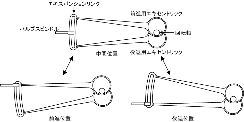 A figure used for explanation of Stephenson valvegear, with Japanese comment